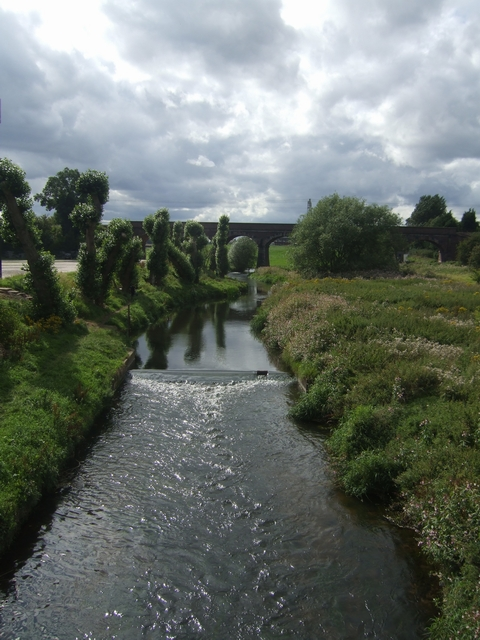 River Penk upstream at Penkridge Looking towards the railway viaduct.